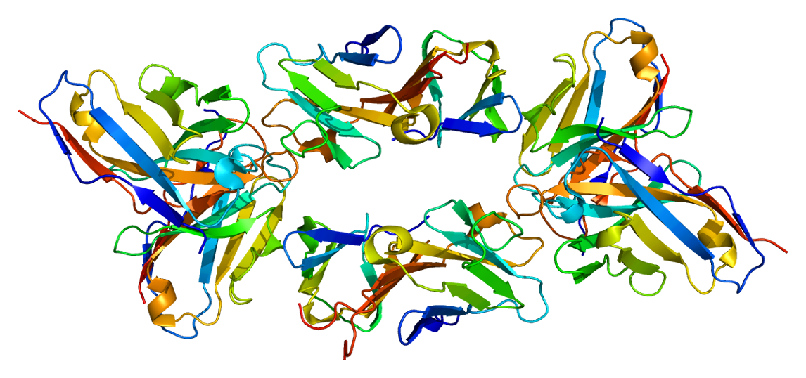 Structure of the CD3D protein. Based on PyMOL rendering of PDB 1xiw.